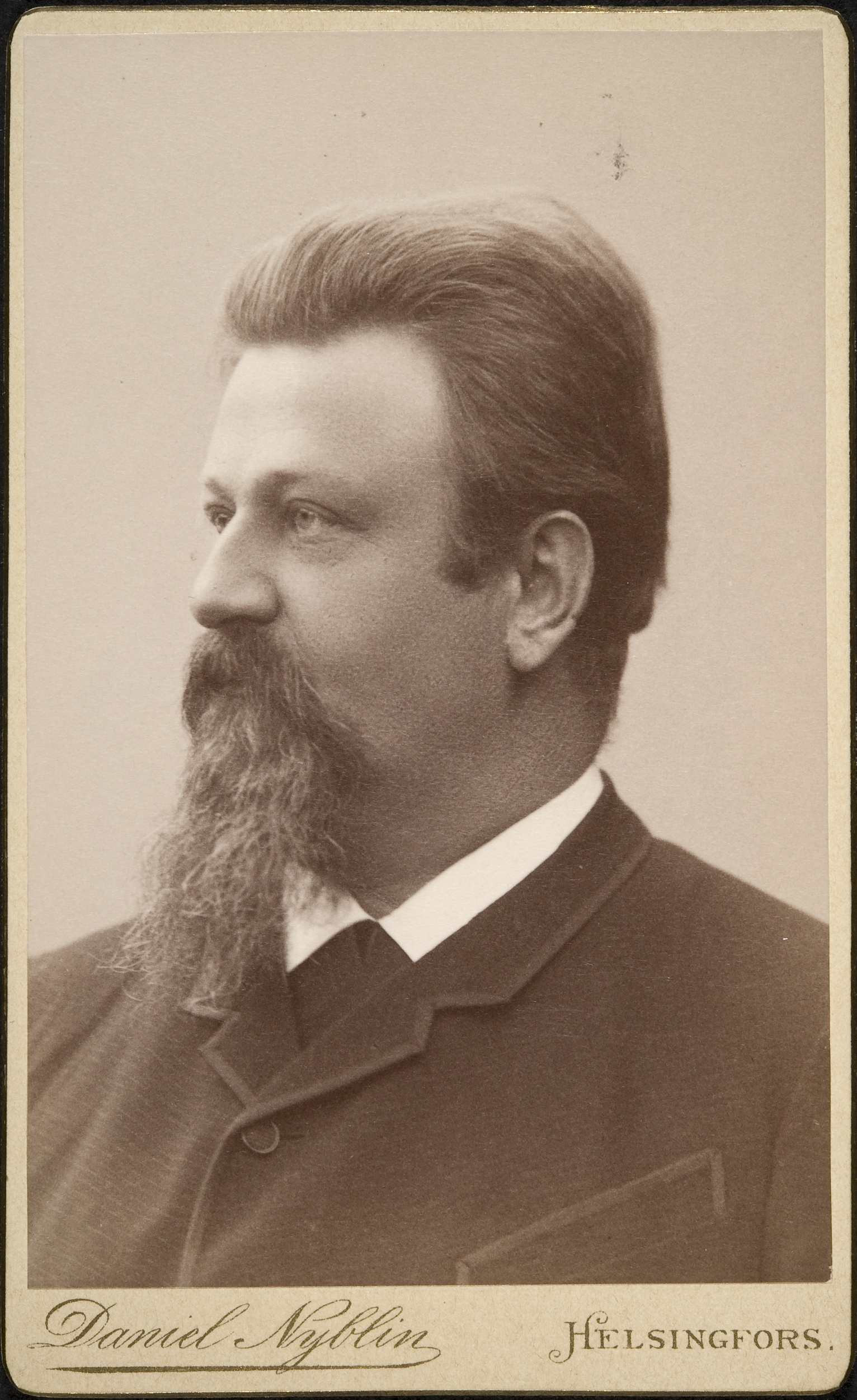 Photograph of the Finnish linguist Arvid Genetz (1848–1915).